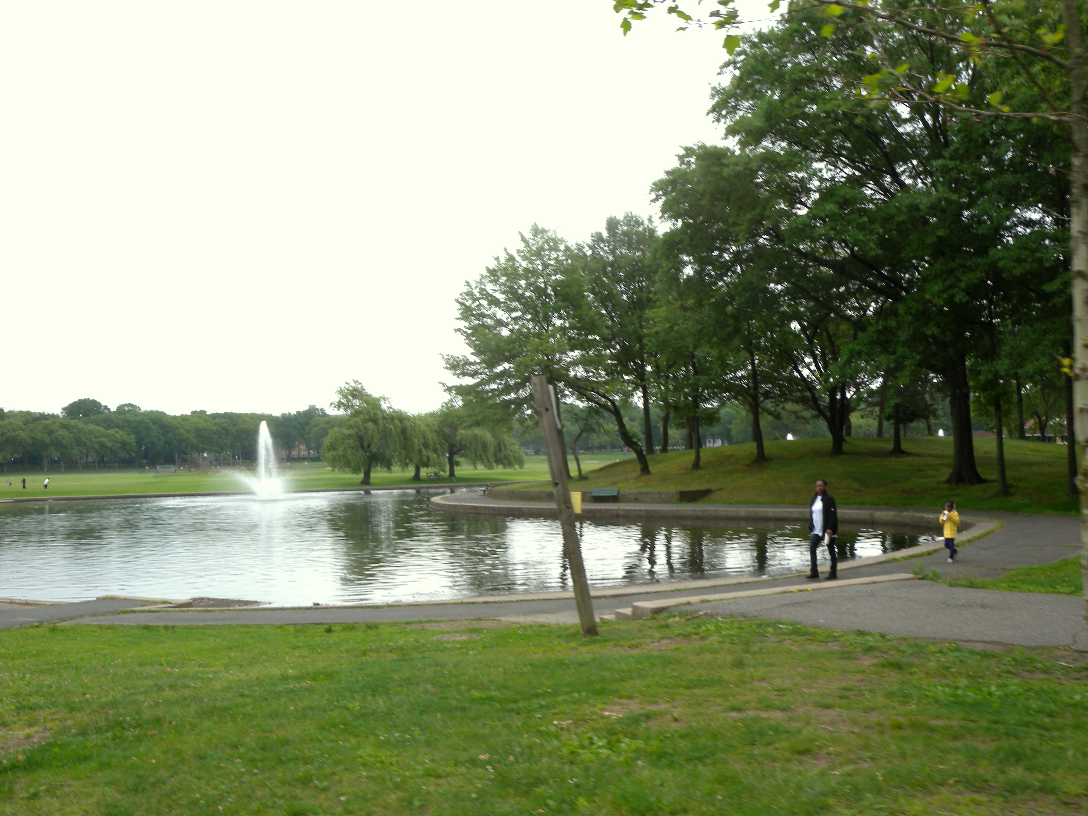 Looking southeast along lake in Lincoln Park on a cloudy midday during JC Ward Tour.